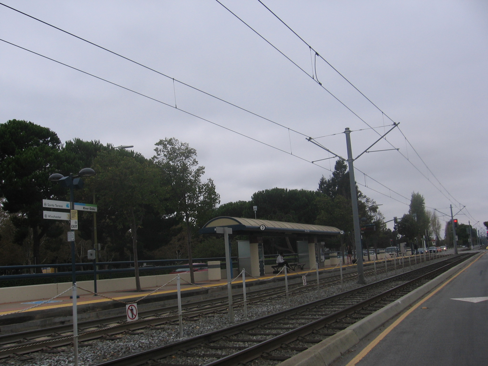 The River Oaks (VTA) light rail and bus station on North 1st Street and River Oaks Parkway in San José, California, USA.